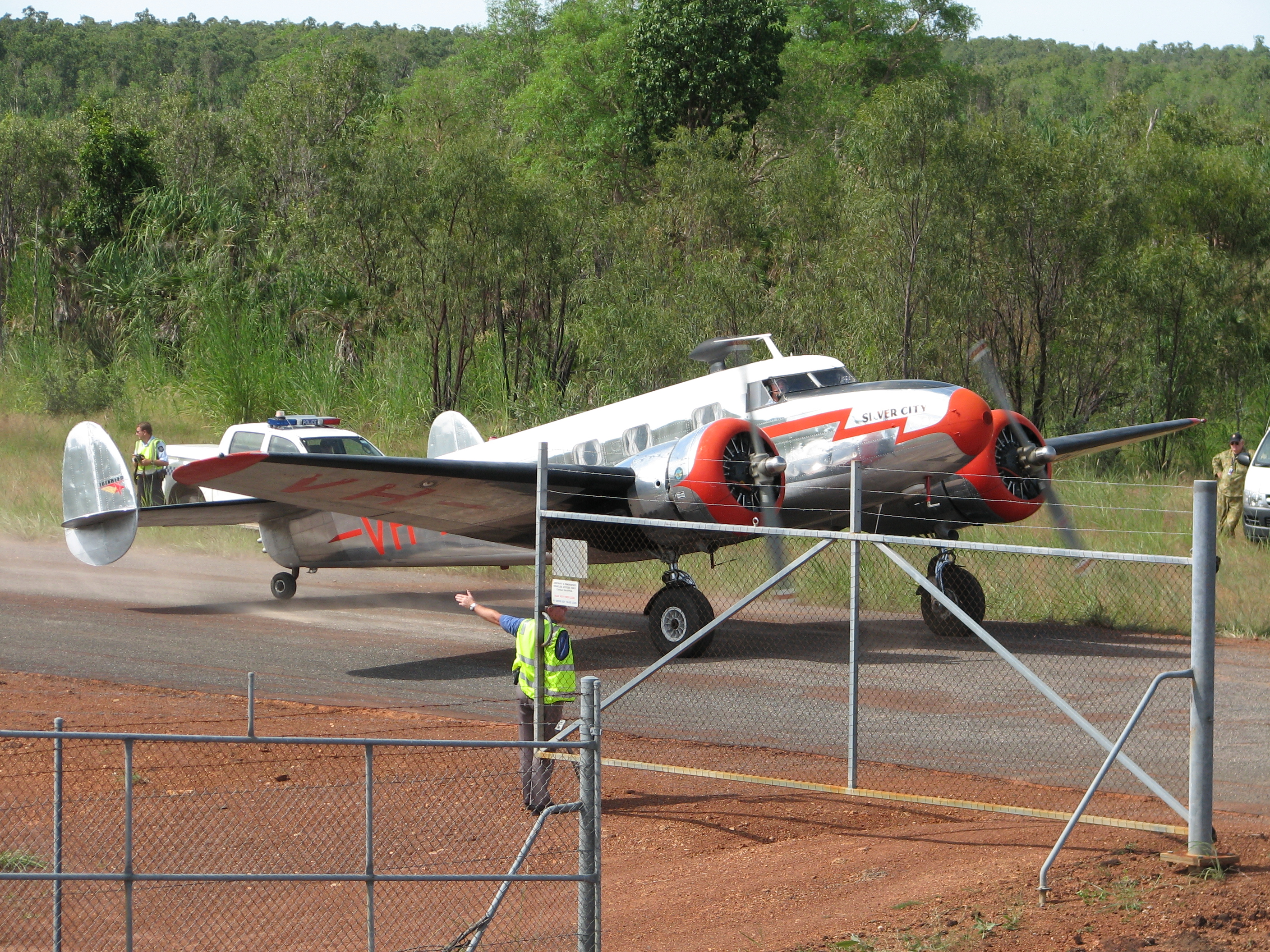 Bob Calaby advising clearance as the Lockheed prepares to taxi through the gate into the Darwin Aviation Museum. Lockheed 12A VH-ABH Silver City was manufactured in Burbank California in 1937. It was a corporate aircraft in the fifties for BHP and was in Darwin in 2008 on a charity fundraiser for the Variety Club.